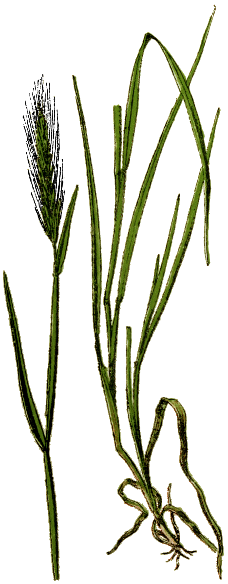 Plate 19, Hordeum murinum from Wayside and woodland blossoms; a pocket guide to British wild flowers for the country rambler. This edited version has been paper-masked for better color restoration.